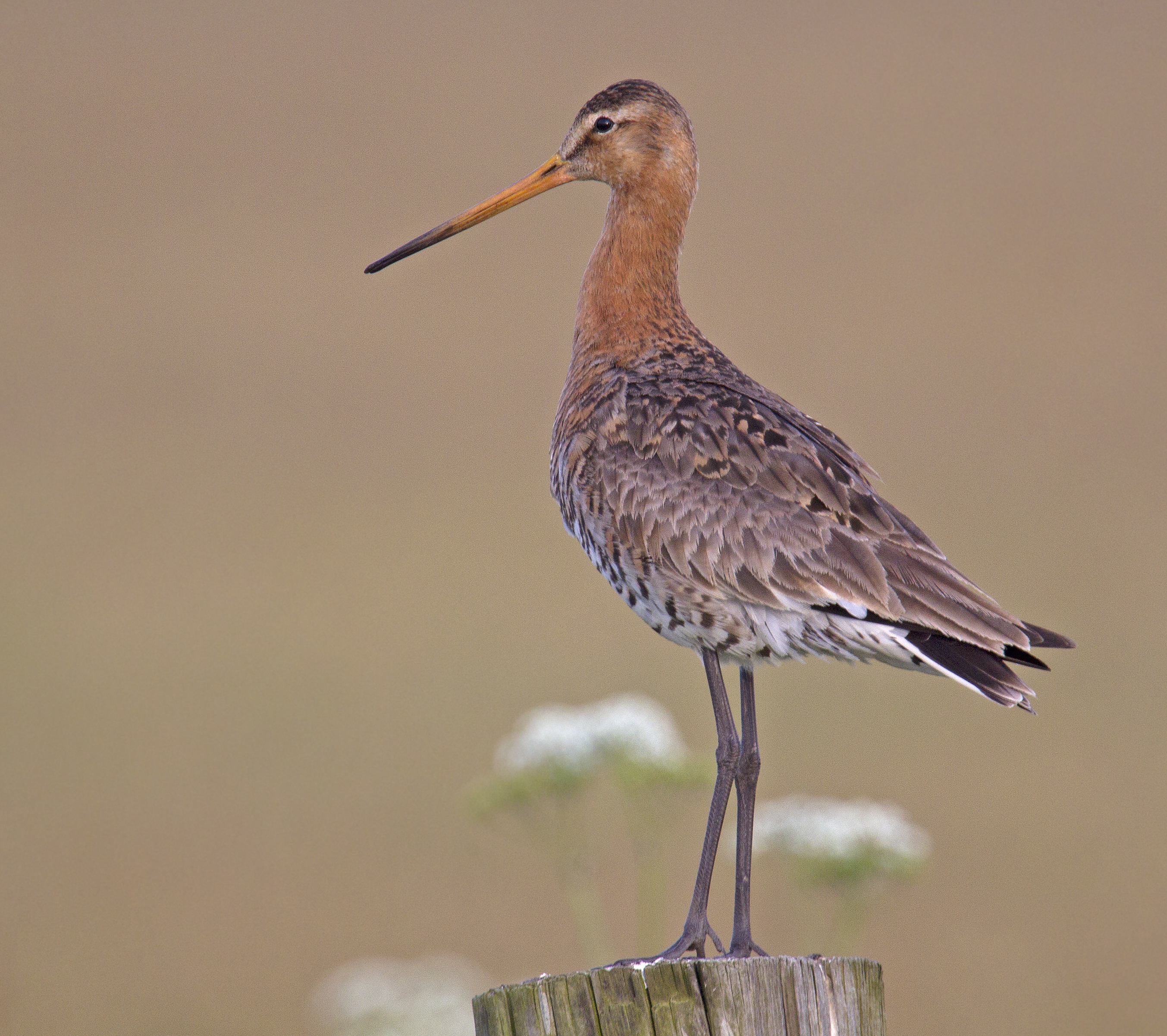 Black-tailed Godwit